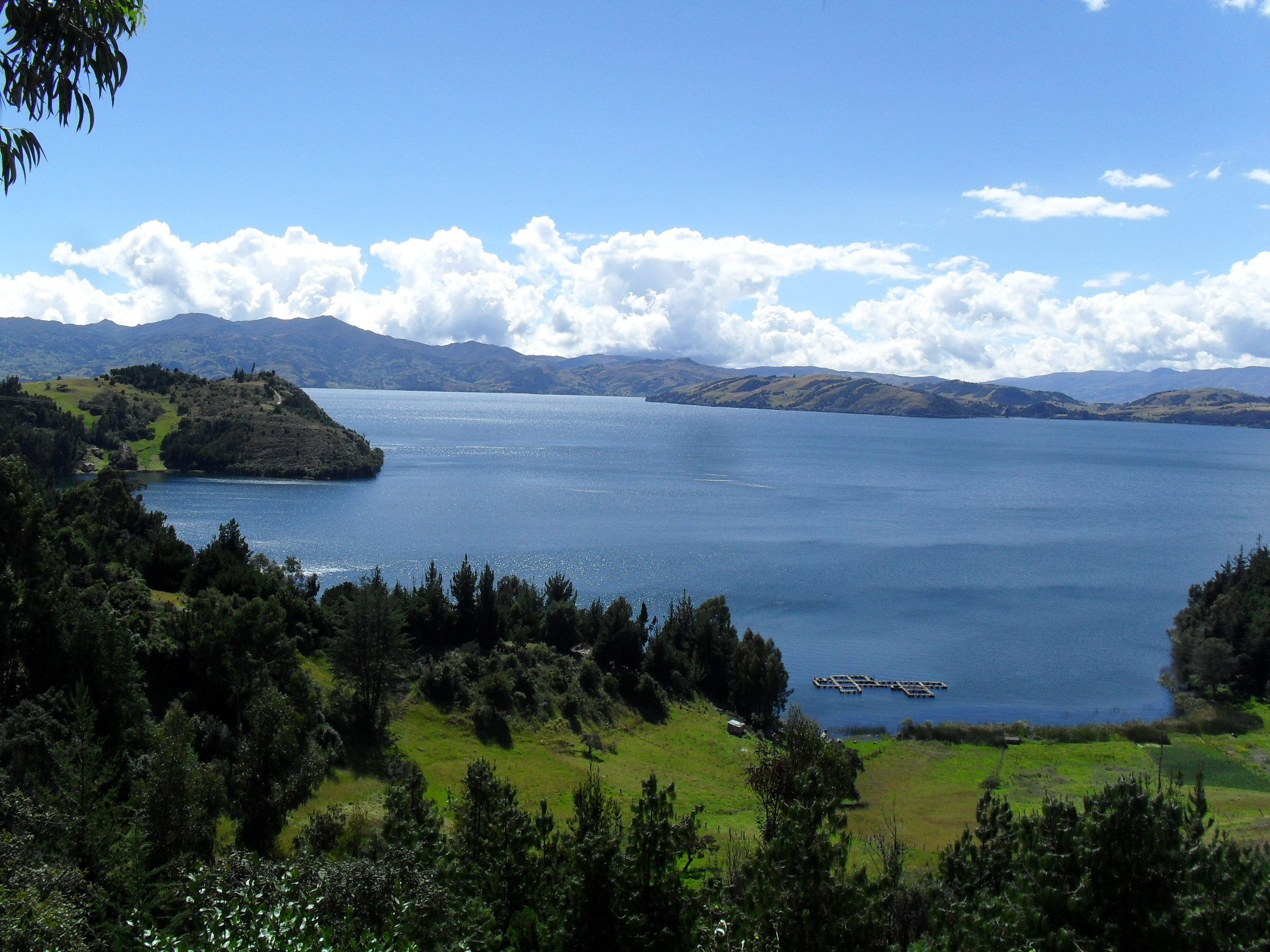 Tota Lake in Boyacá Departament, Colombia